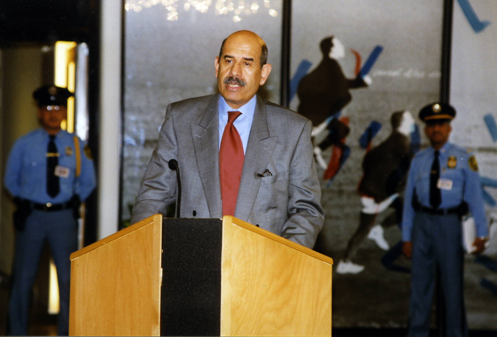 IAEA Director General Mohamed ElBaradei speaks at the signing of Additional Protocols to Safeguards Agreements by the European Union Member States (EURATOM) and IAEA at the 42nd IAEA General Conference, 21-25 September 1998. (Austria Center, Vienna, Austria, 22 September 1998) Photo Credit: Dean Calma/IAEA